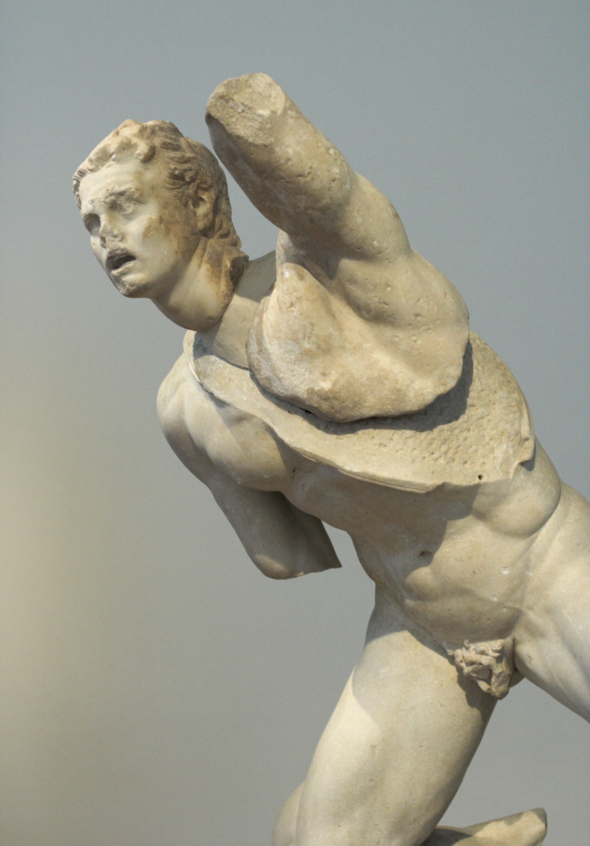 Gallic warrior, parian marble, around 100 BC, the likely author: Agasias son of Menophilos. The influence of sculpture school in Pergamon. Finding: Agora of the Italians in Delos. National Archaeological Museum of Athens N247.